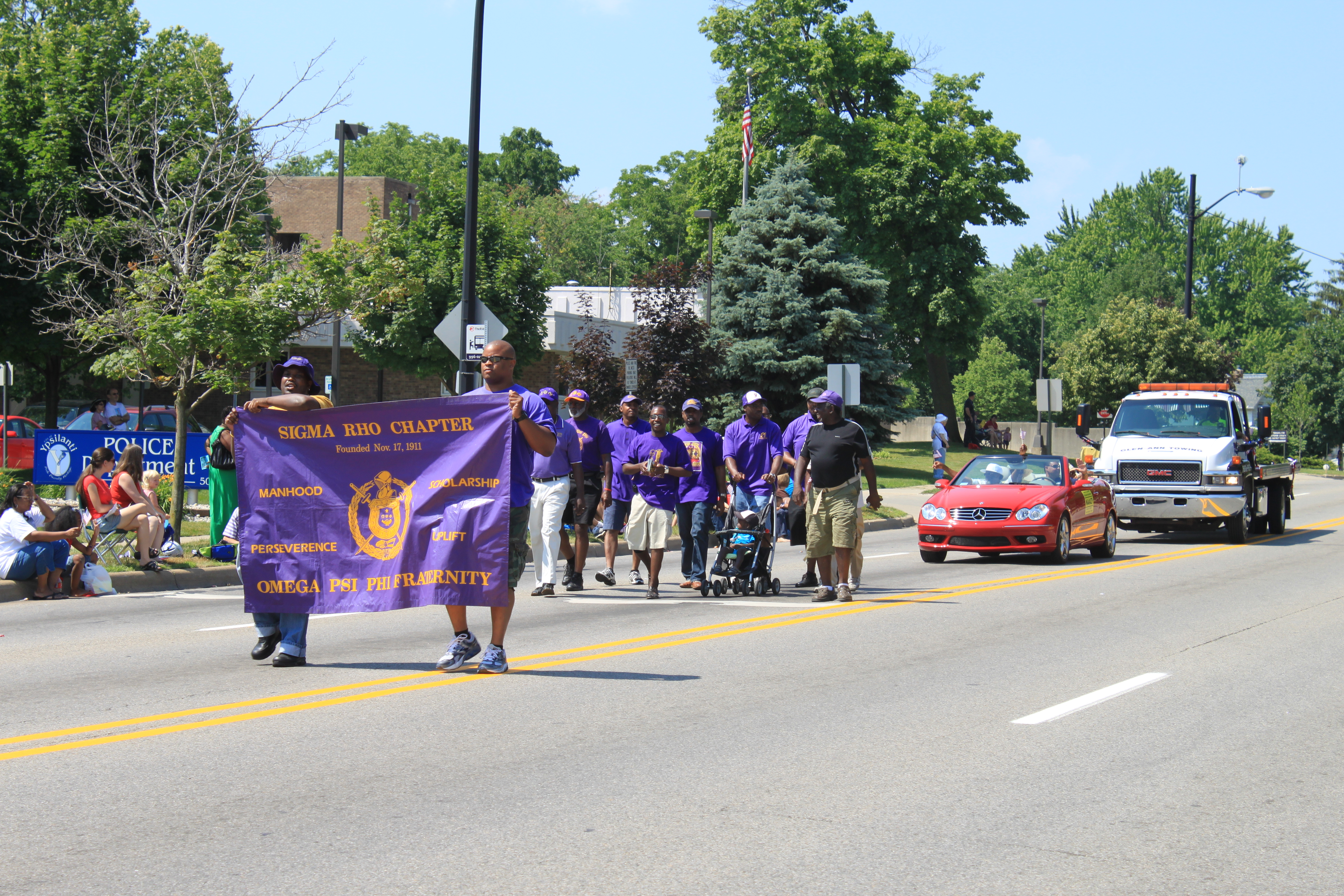 Omega Psi Phi chapter members march in the 2011 Ypsilanti Independence Day Parade, July 4, Michigan Avenue, Ypsilanti, Michigan